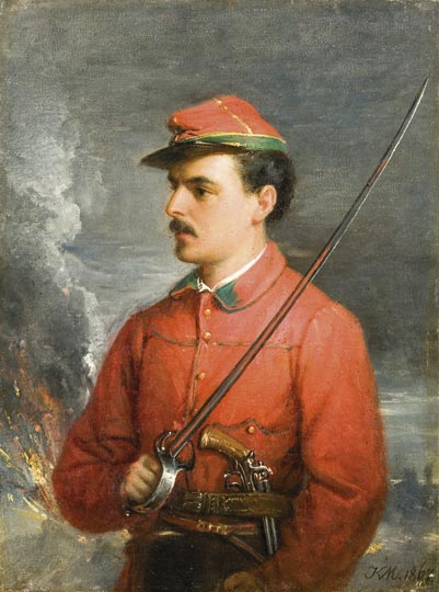 Military assistant of Garibaldi